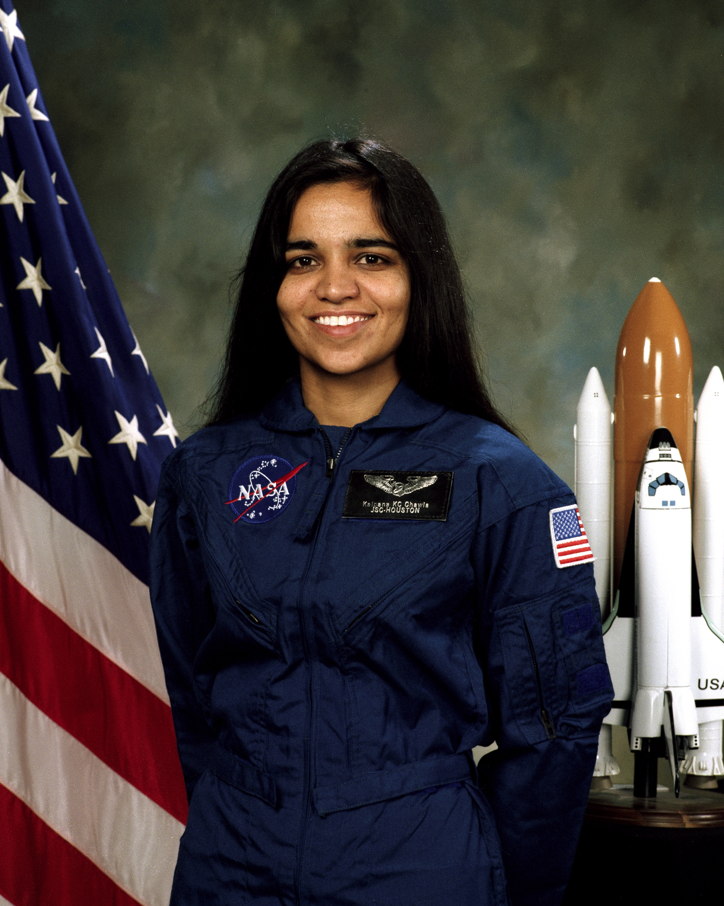 Kalpana Chawla, STS-87 mission specialist